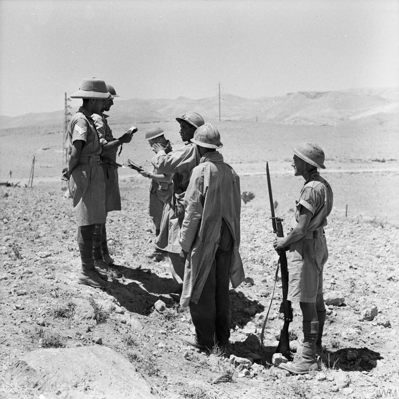 The British Army in the Middle East 1941 Two Vichy Spahis, captured near Damascus, being questioned by a British Officer, 3 July 1941.